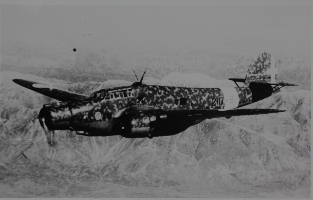 PictionID: 42002973 - Title:CANT Z.1007Alcyone/Alcione *Catalog: � Filename::15_003033.TIF - Image from the Charles Daniel's Collection Italian Aircraft Album.Repository: San Diego Air and Space Museum Archive